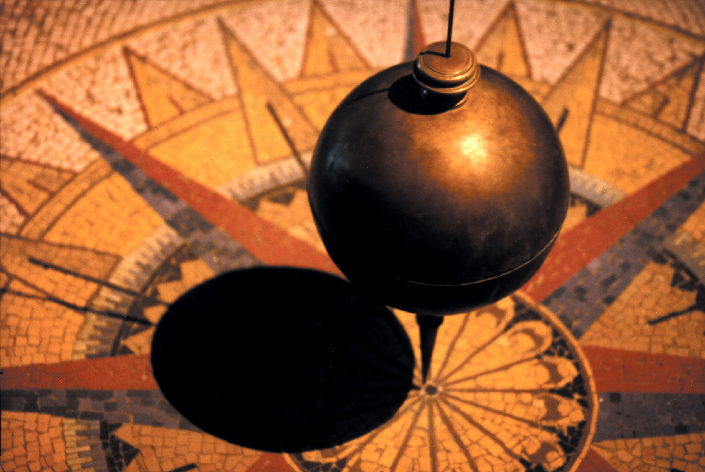 Taken at the Museo Nazionale della Scienza e Tecnica (National Museum of Science and Technology) in Milan, Italy.